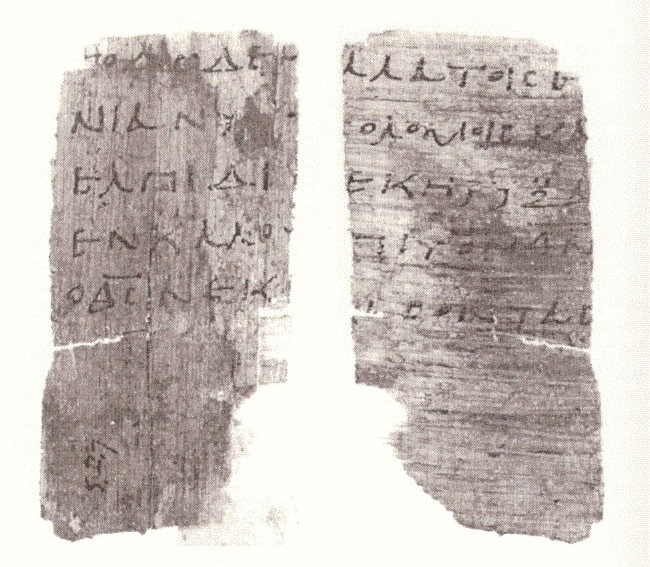 Fragment with text of Acts 26:7-8.20, from the collection of the Bodleian Library, Oxford, UK